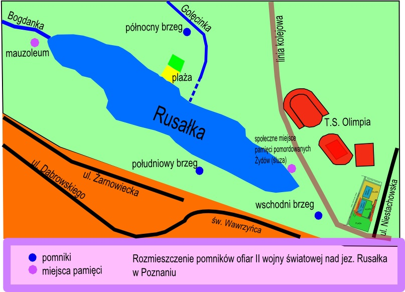 Rusalka Lake, Poznan. WW2 Monuments.